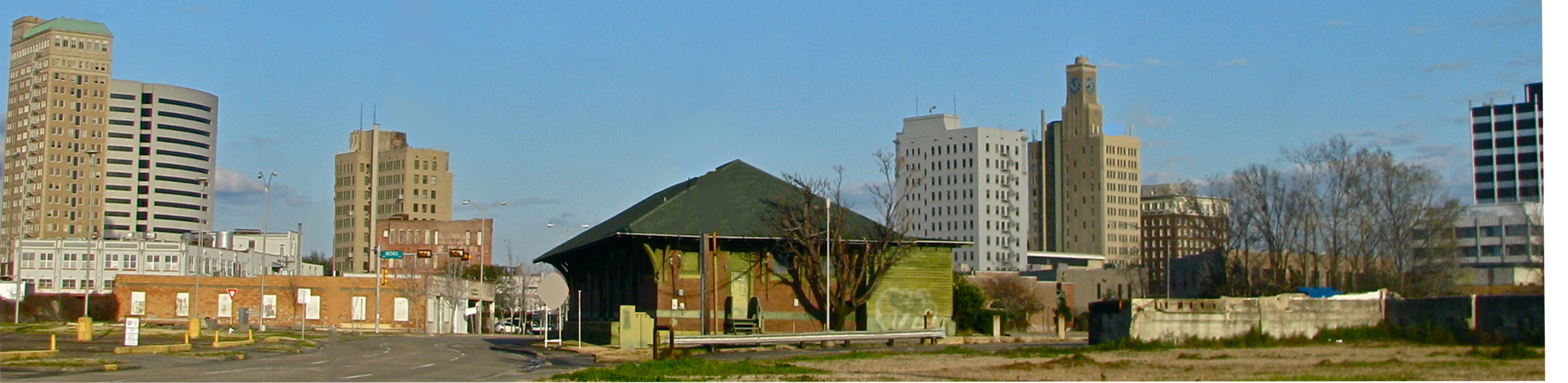 Skyline of Beaumont, Texas.